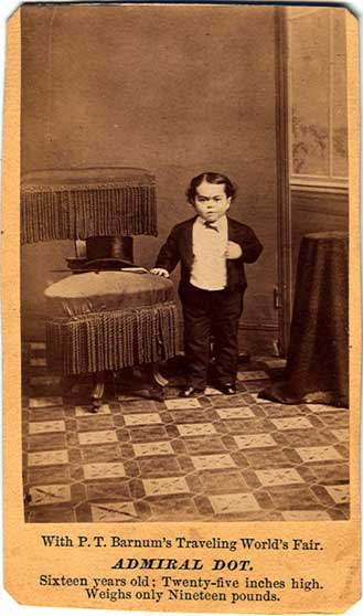 Admiral Dot in 1873